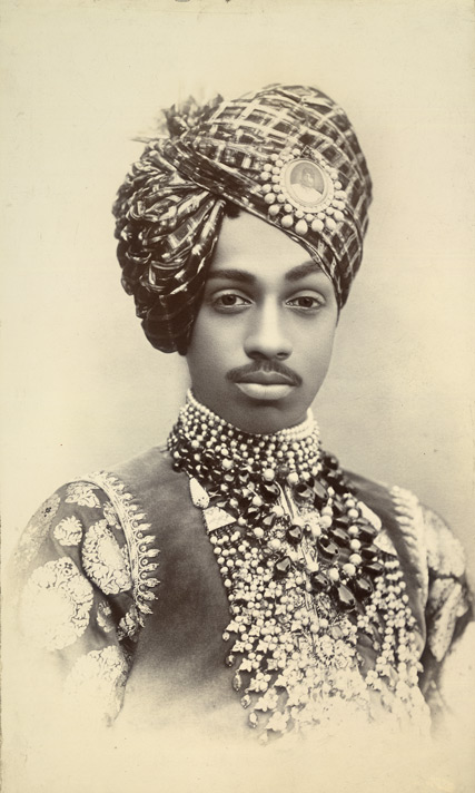 Photo of Sardar Singh, Maharaja of Jodhpur from the 'Wheeler Collection: Portraits of Indian Rulers,' was taken by Gobindram and Oodeyram c.1900. Stephen Wheeler, the donor of the collection, was presumably related to J. Talboys Wheeler, organiser of the 1877 durbar and author of 'The History of the Imperial Assemblage at Delhi' (London, [1877]).